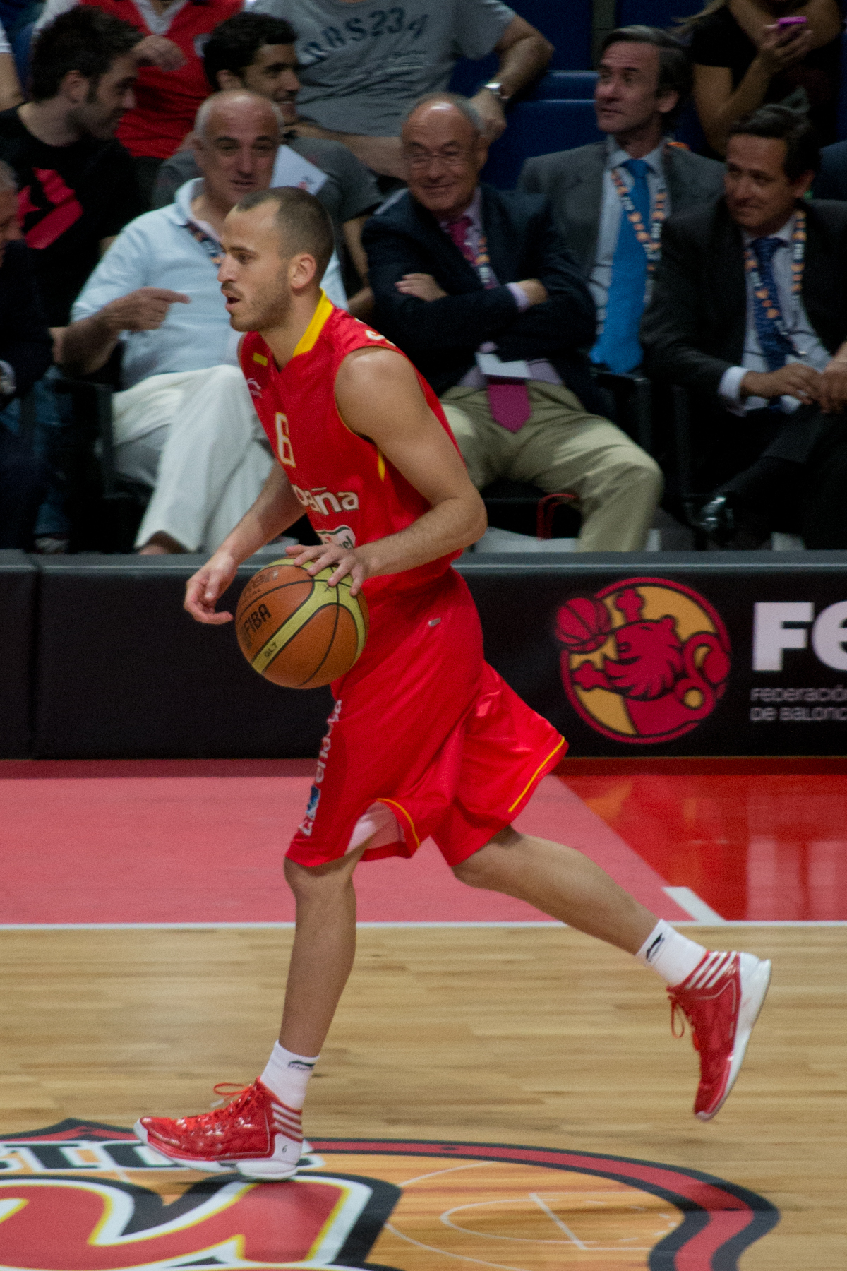 Sergio Rodríguez during a match with the Spain national basketball team.